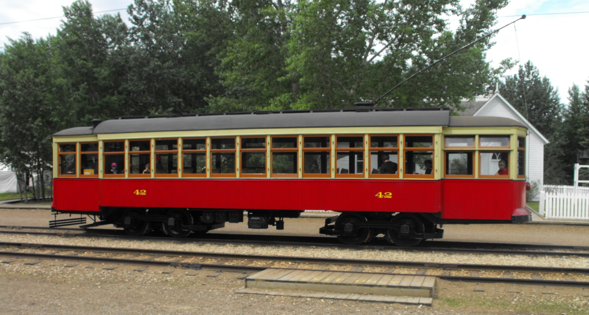 Streetcar in operation at Fort Edmonton Park, Edmonton, Alberta, Canada. It is operated by the Edmonton Radial Railway Society.